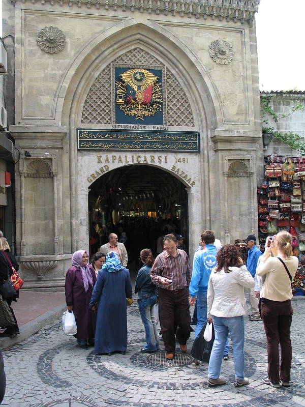 Grand Bazaar or Kapalicarsi, Istanbul. Photographer: Osvaldo Gago